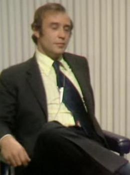 Robert Skidelsky at the 1970 general election